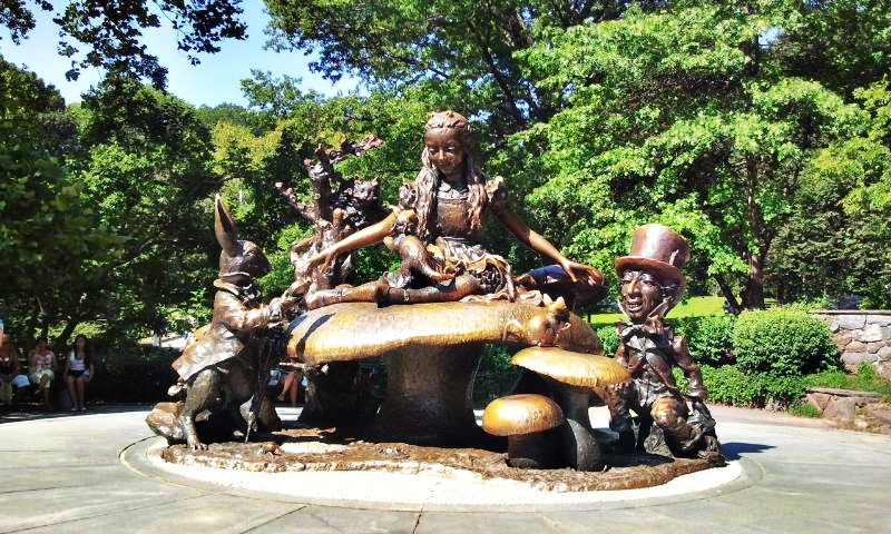 Central Park